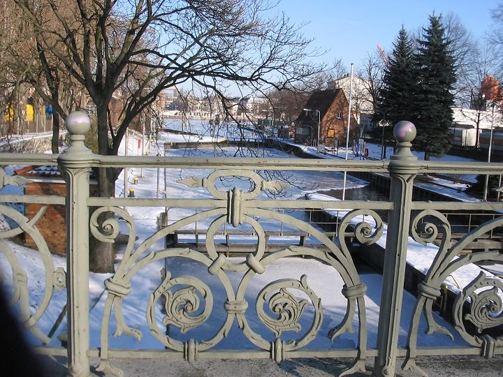 Landwehrkanal in Berlin-Kreuzberg. Nothern part with Lohmühleninsel at „upper“ lock, view from Schlesische Brücke with river Spree in the background.